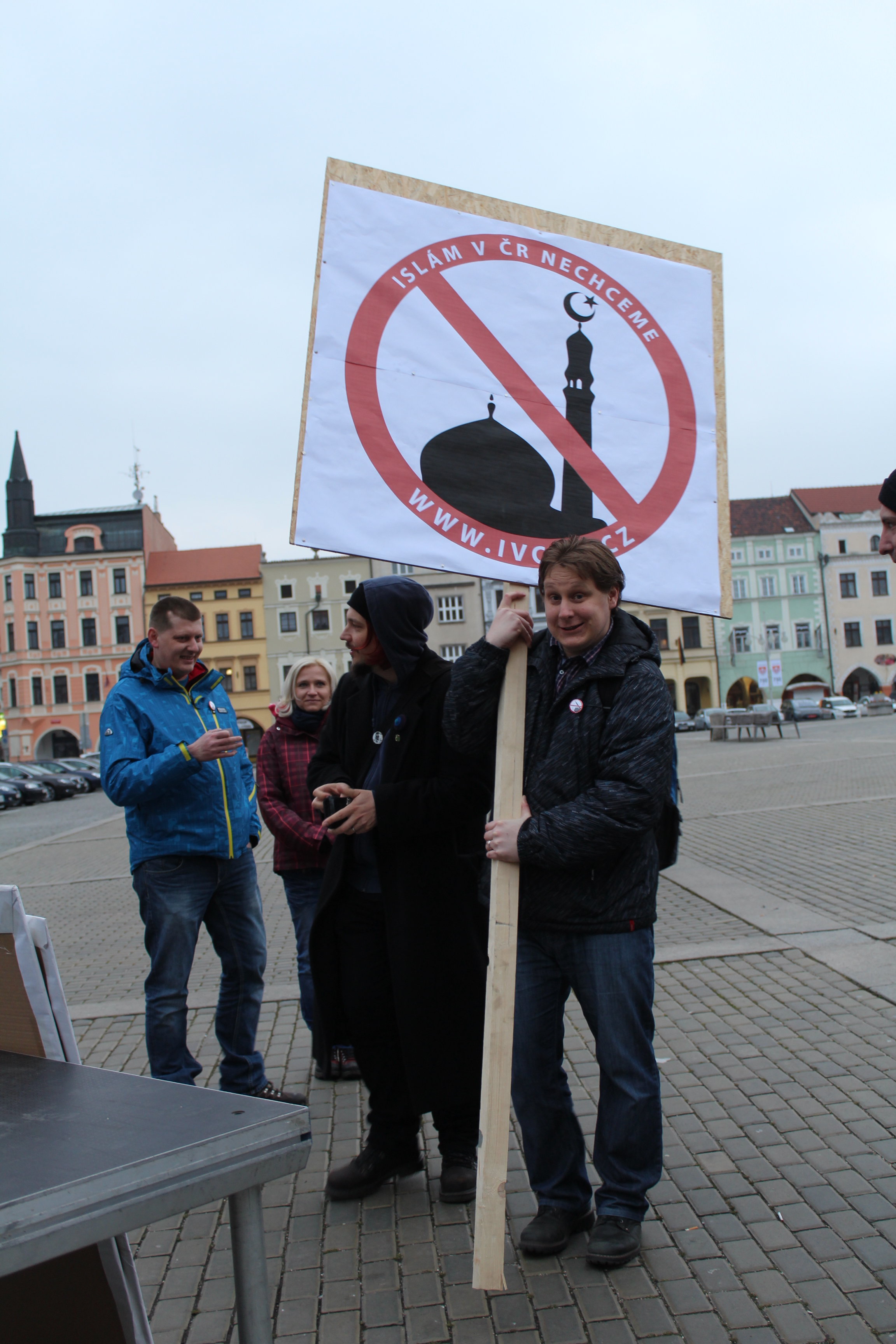 Participant with banner of iniciative Islám v České republice nechceme (We don't want Islam in the Czech Republic) on March 14, 2015 in České Budějovice, Czech Republic.